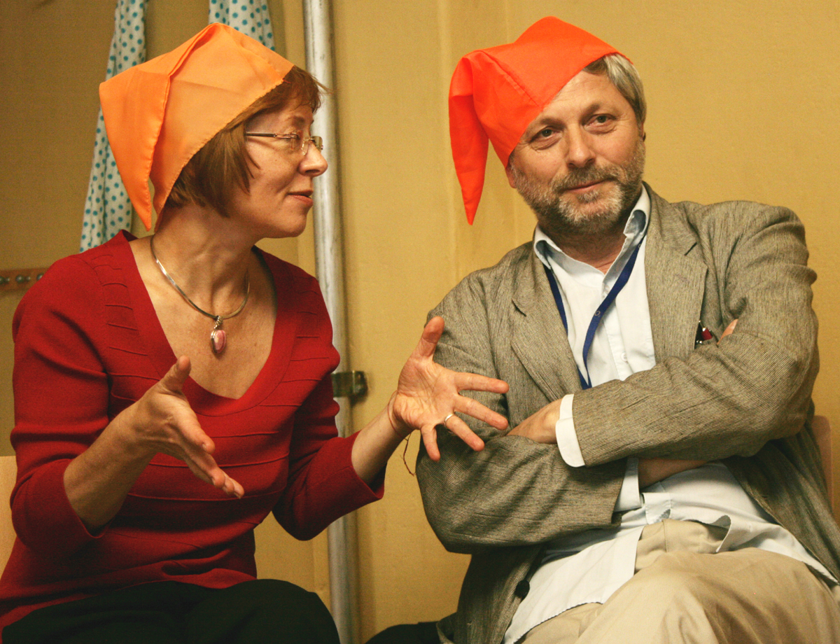 Major Waldemar Fydrich is founder of the polish happening movement "Orange Alternative" (Pomaranczowa Alternatywa) and the "surrealistic Socialism" which uses dwarfs as symbol for the common people suffering under the power of the polish system in the 80ies.